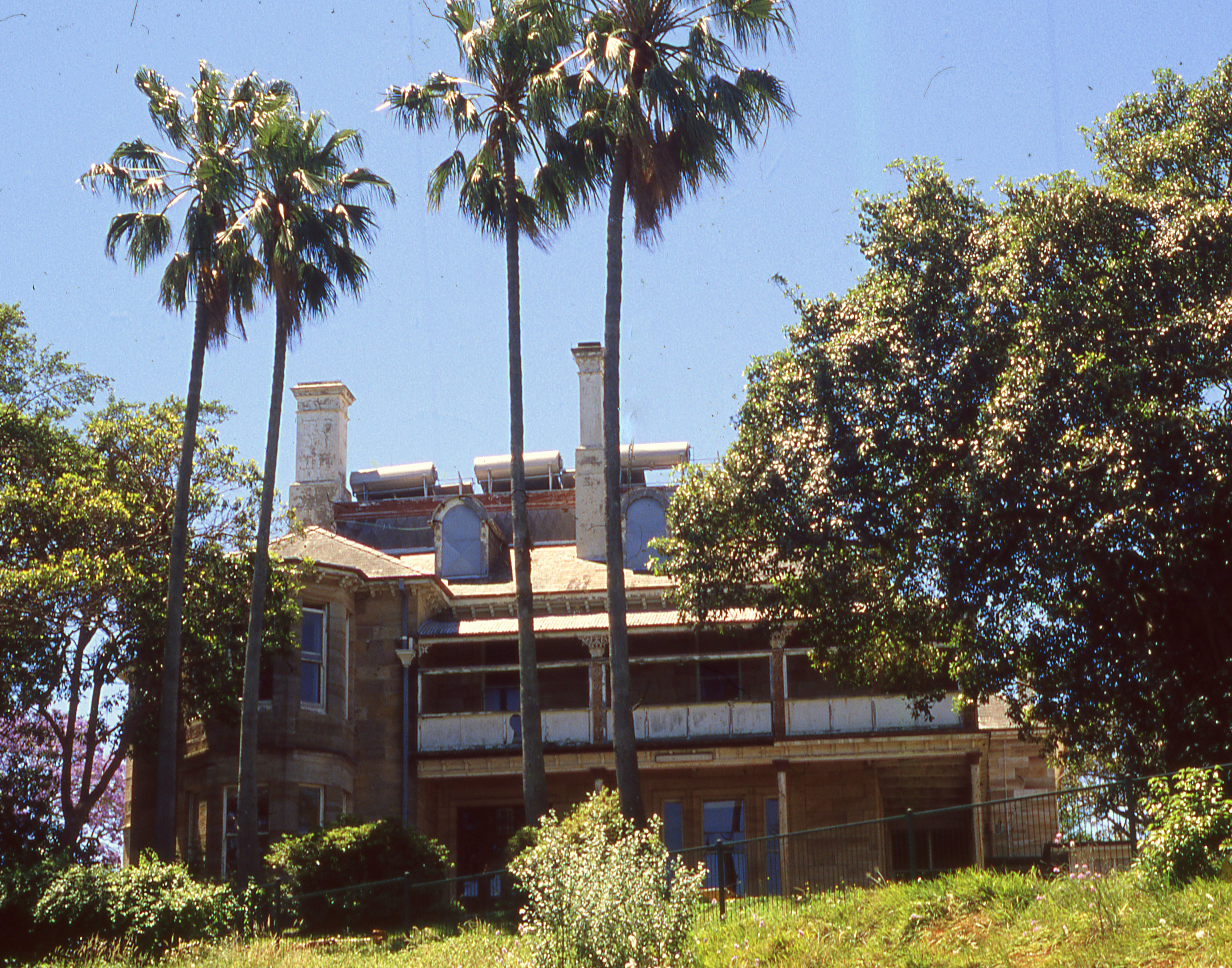 Graithwaite Hospital, North Sydney, Sydney (now part of Shore School) (Kodachrome slide shot ten years ago, scanned at 6400)